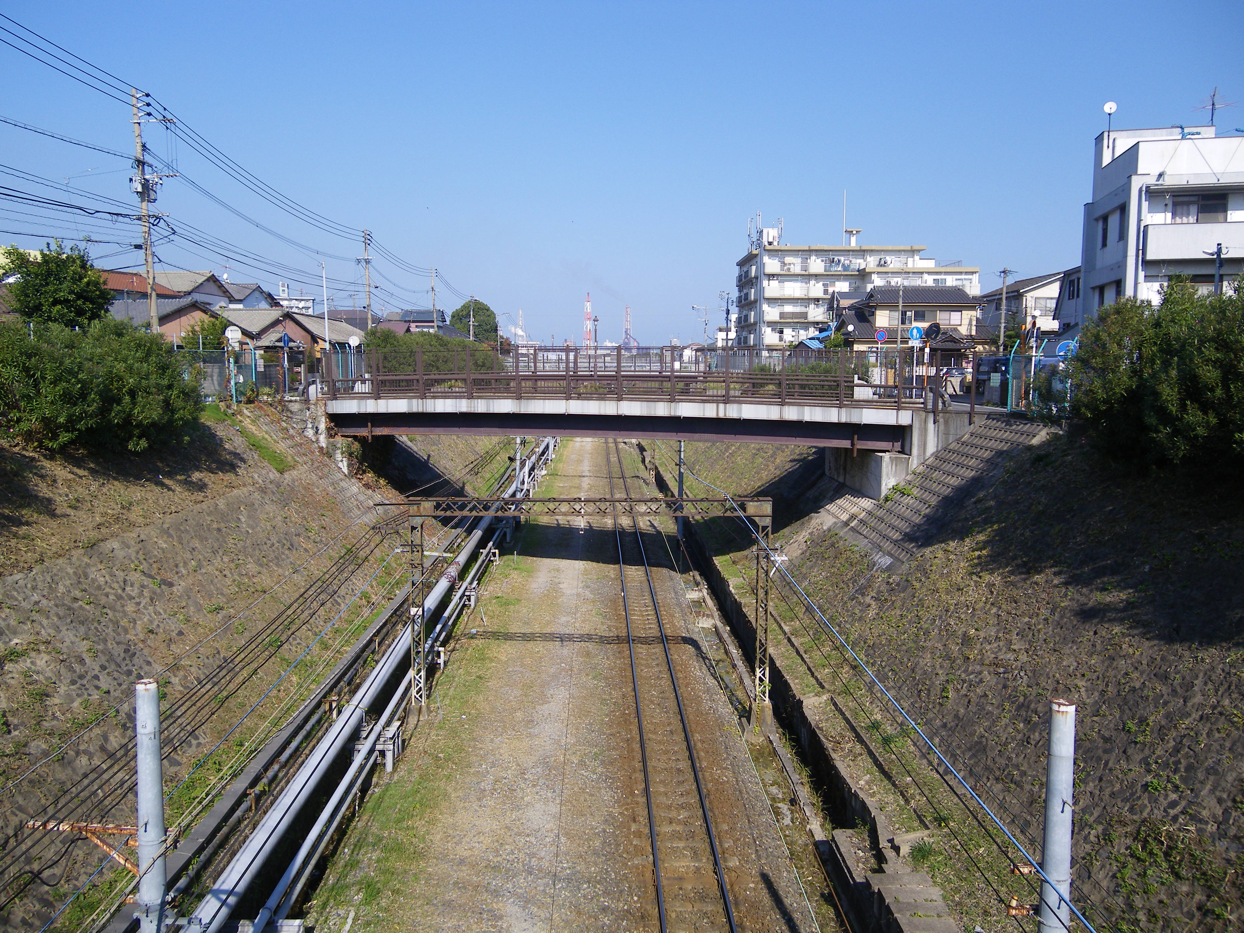 Kurogane line, industrial railway of NIPPON STEEL CORPORATION Yahata works.